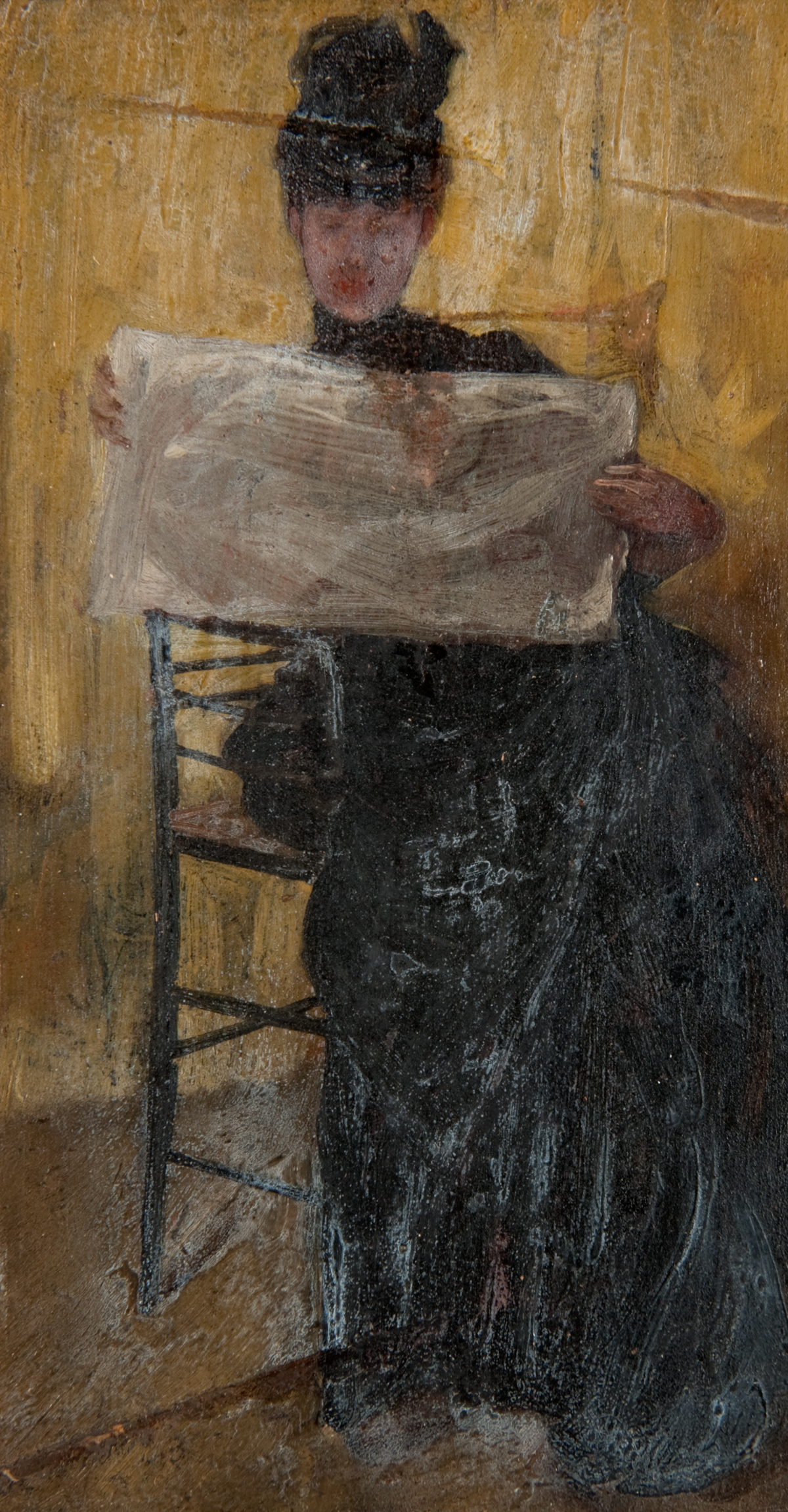 Beatrice Whistler (12 May 1857 – 10 May 1896) ; Ethel Philip Reading a Newspaper; Hunterian Art Gallery, University of Glasgow; guess at 1880